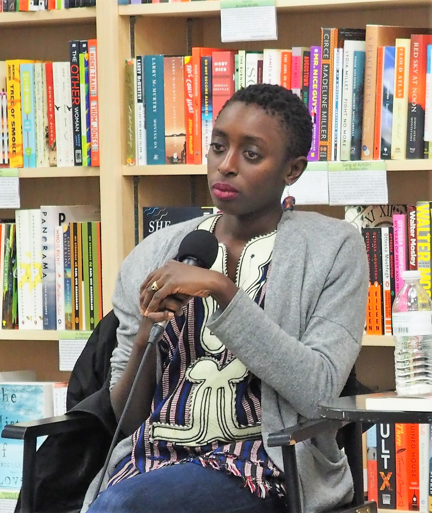 reading at Politics and Prose Wharf, Washington, D.C.